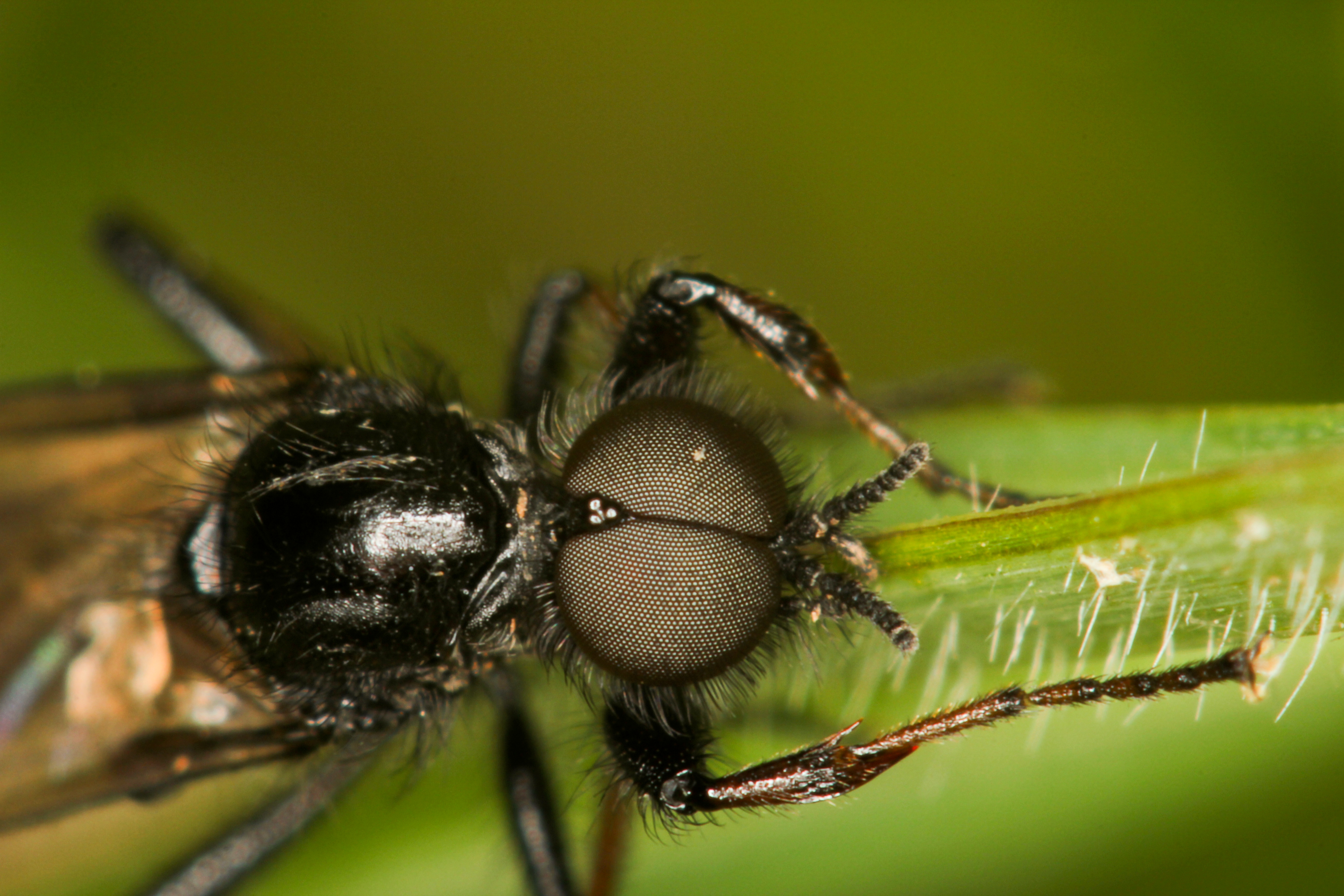 Male Bibio johannis from England.